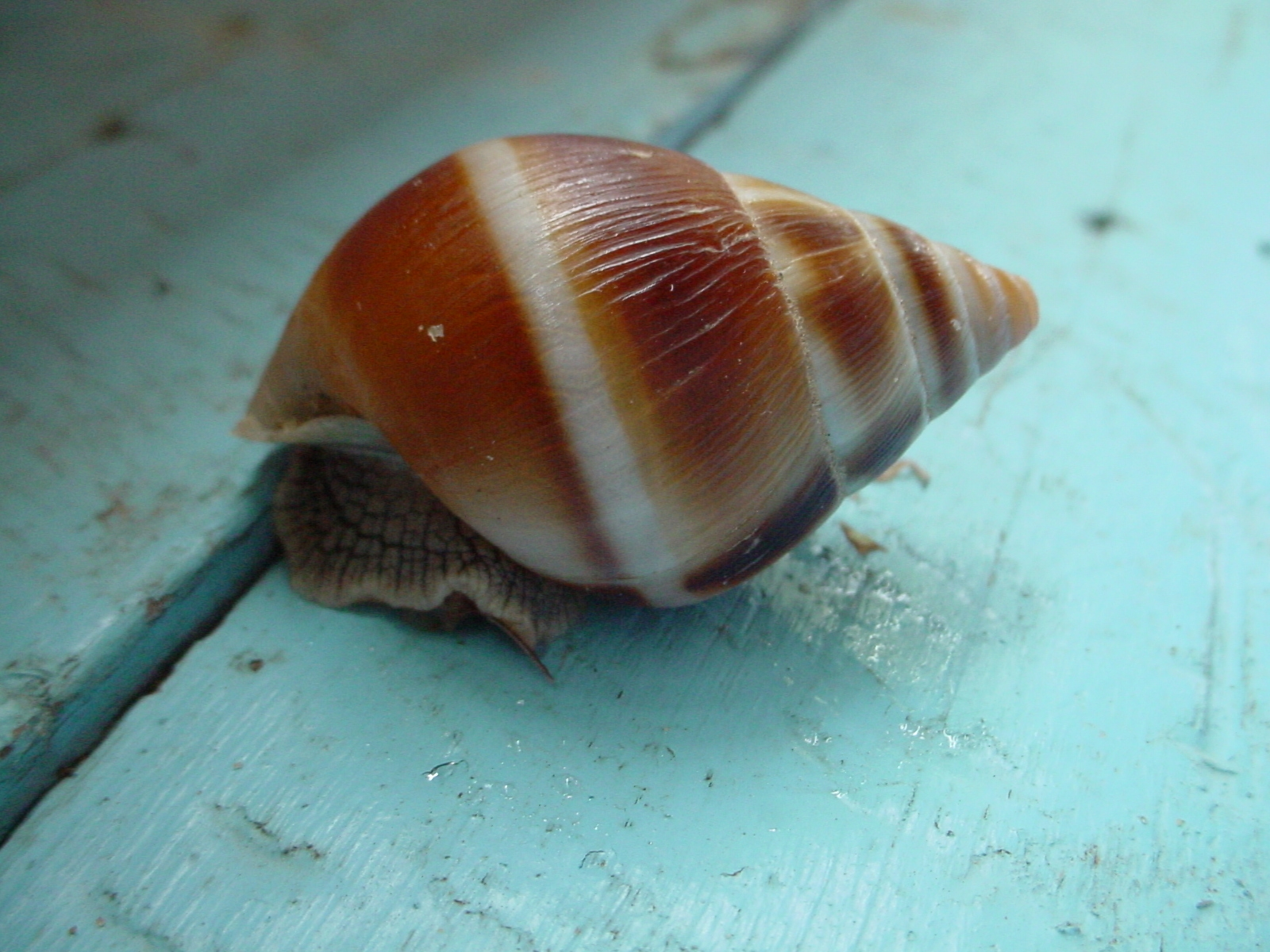 Landsnail (Leucotaenius favanii) from the Androy area (south Madagascar)